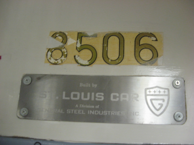 Manufacturer's plate of the R30 car on display at the New York Transit Museum.